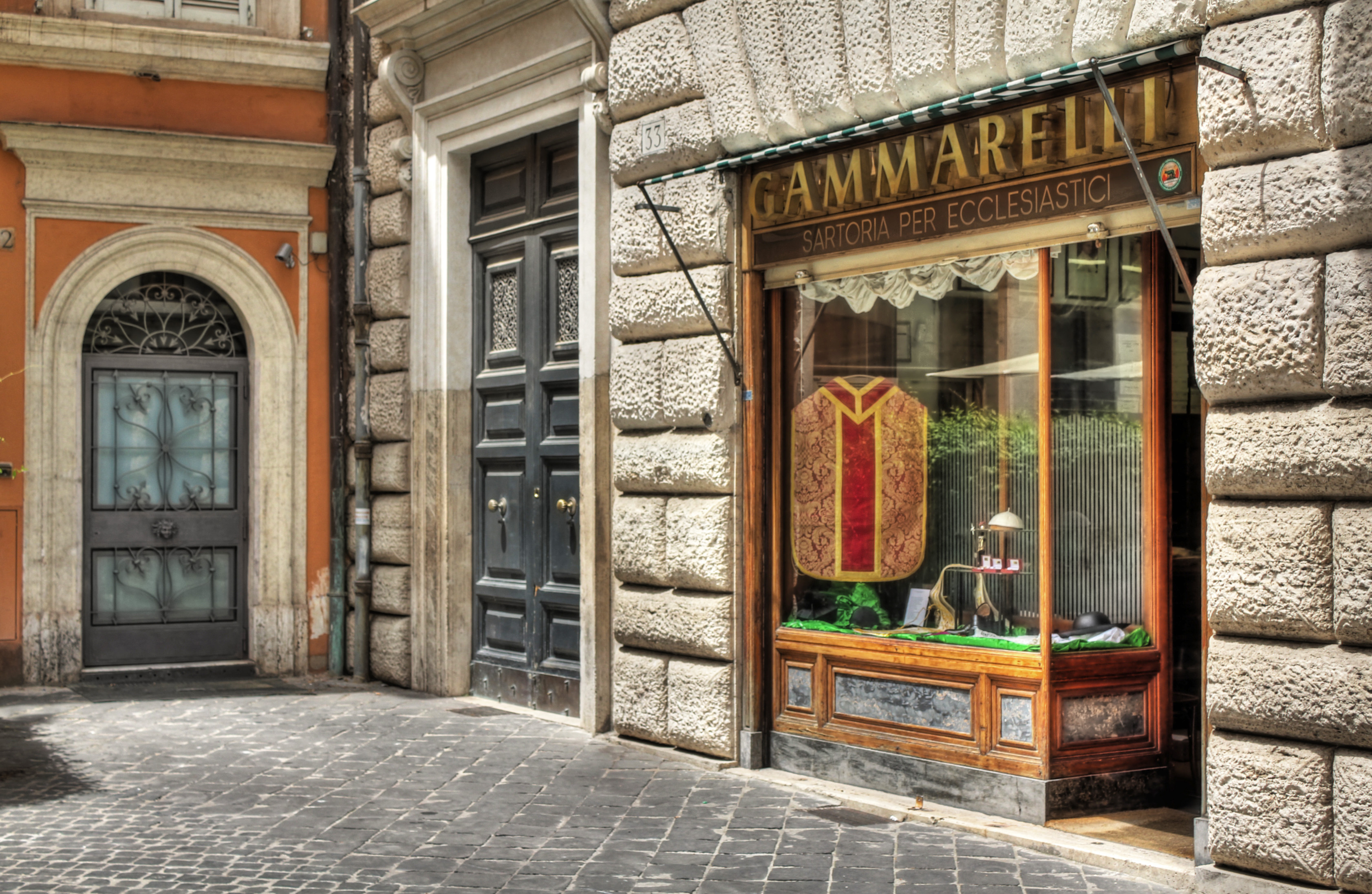 The papal tailors shop, Gammarelli - Rome.